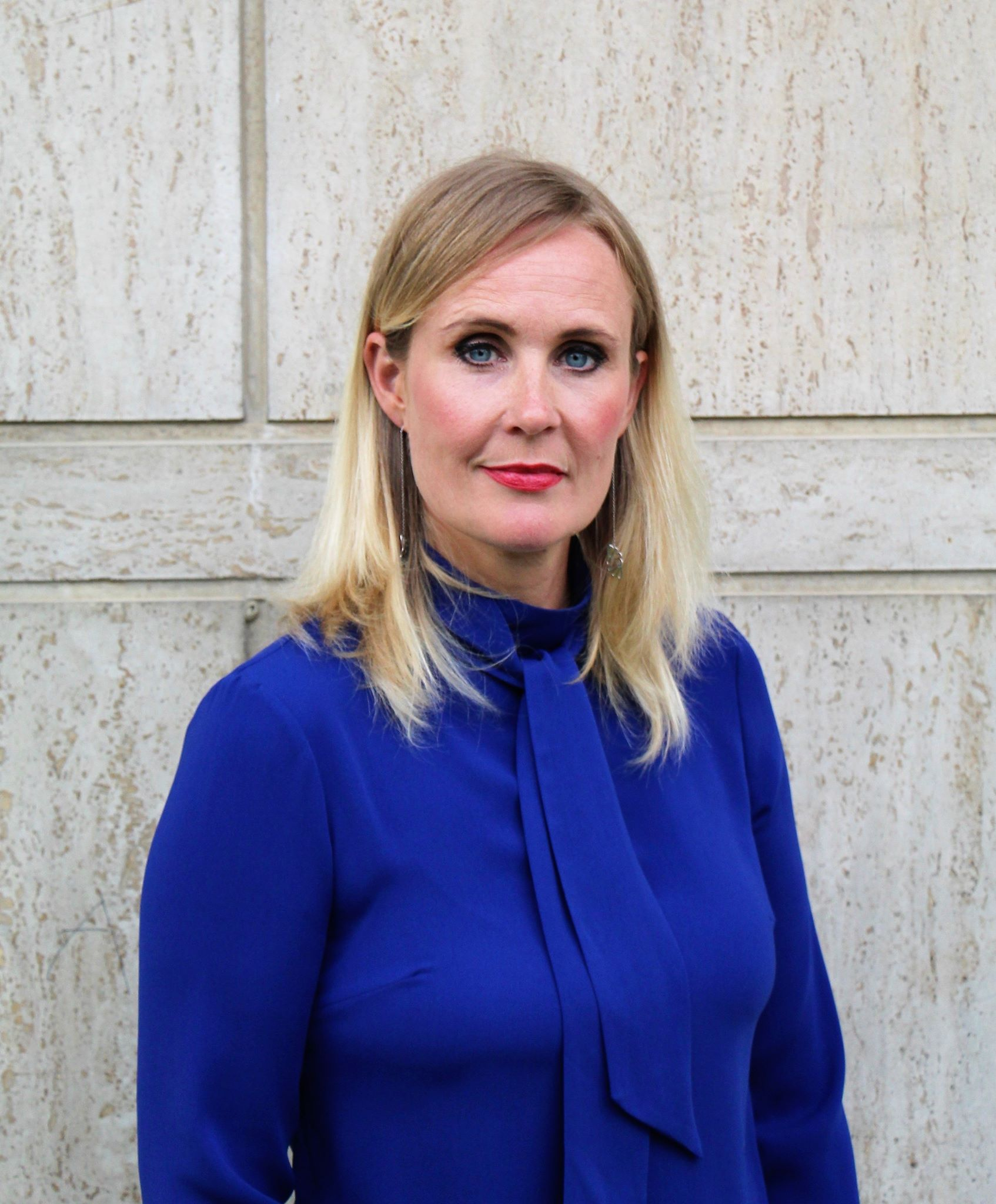 A portrait photo of Icelandic journalist and editor Thora Arnors, taken in the spring of 2020.